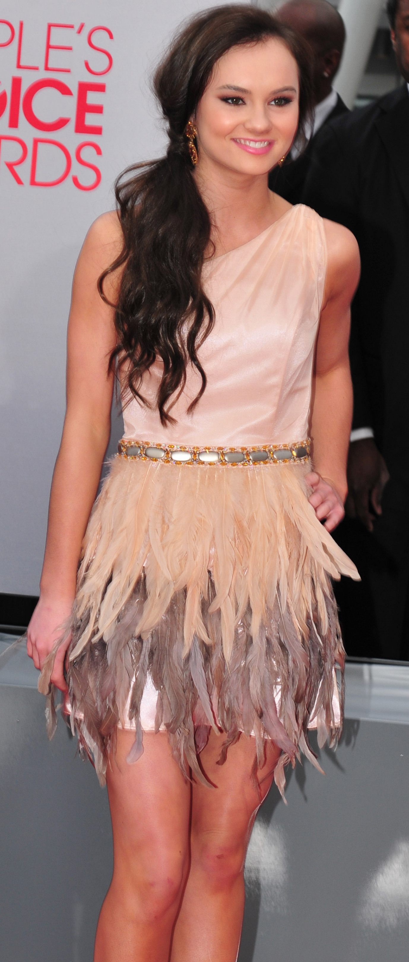 Madeline Carroll on the red carpet at the 38th People's Choice Awards on January 11, 2012, at the Nokia Theatre in Los Angeles, California.